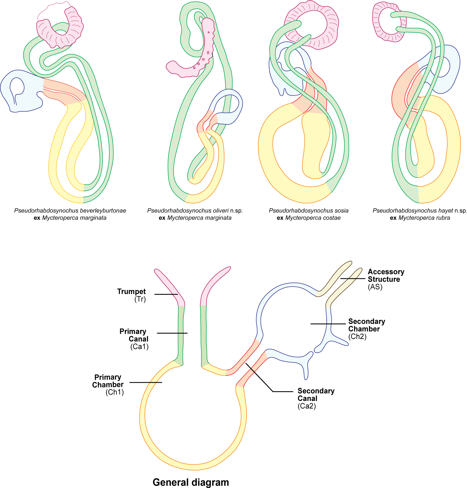 Figure 8 of paper. Homologies of the various parts of the sclerotised vaginae illustrated by coloured diagrams. The same colours are used in each diagram for the same parts, to show homologies between species. The nomenclature of vaginal parts and the general diagram are from Justine (2007). All vaginae drawn with same sizes–magnifications vary.